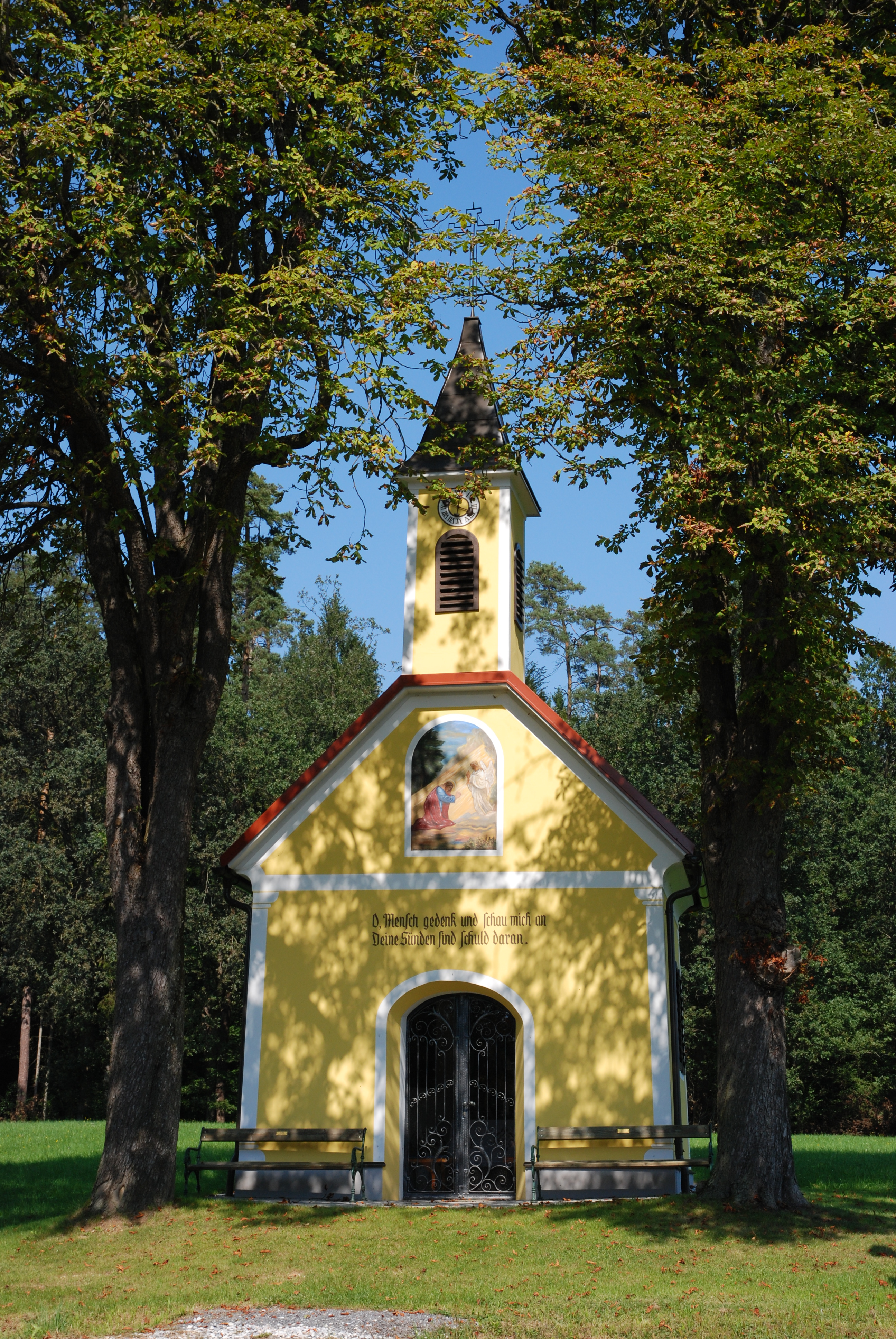 Kapelle Radersdorf